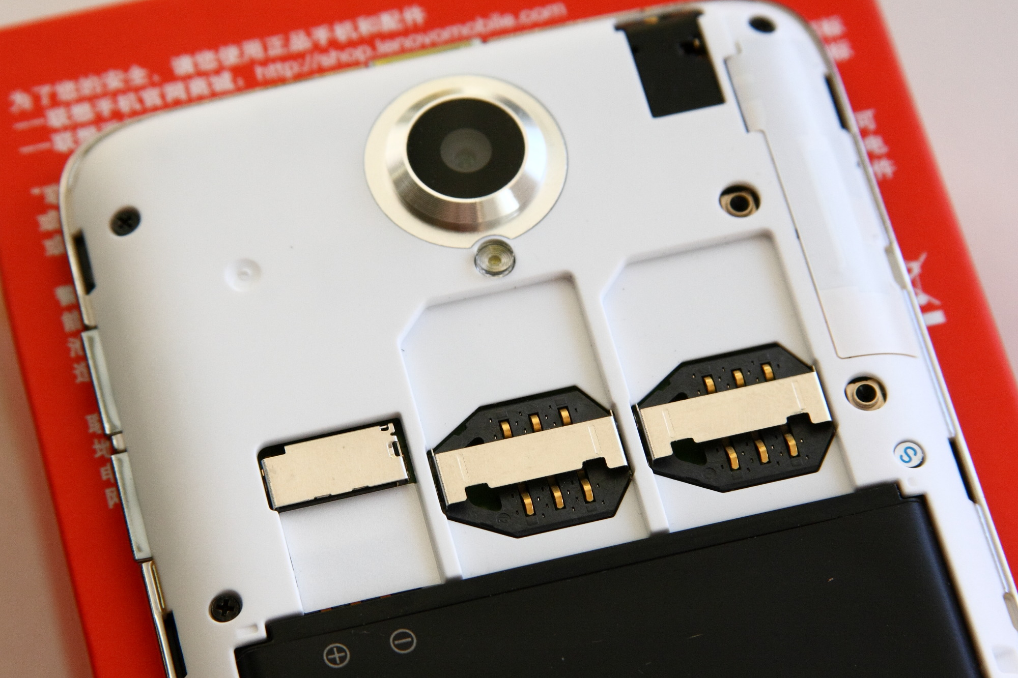 SIM card and MicroSD card slots under cover of a Lenovo S650 (Vibe X Mini)